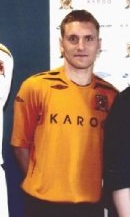 Andy Dawson. Image cropped from original at flickr.